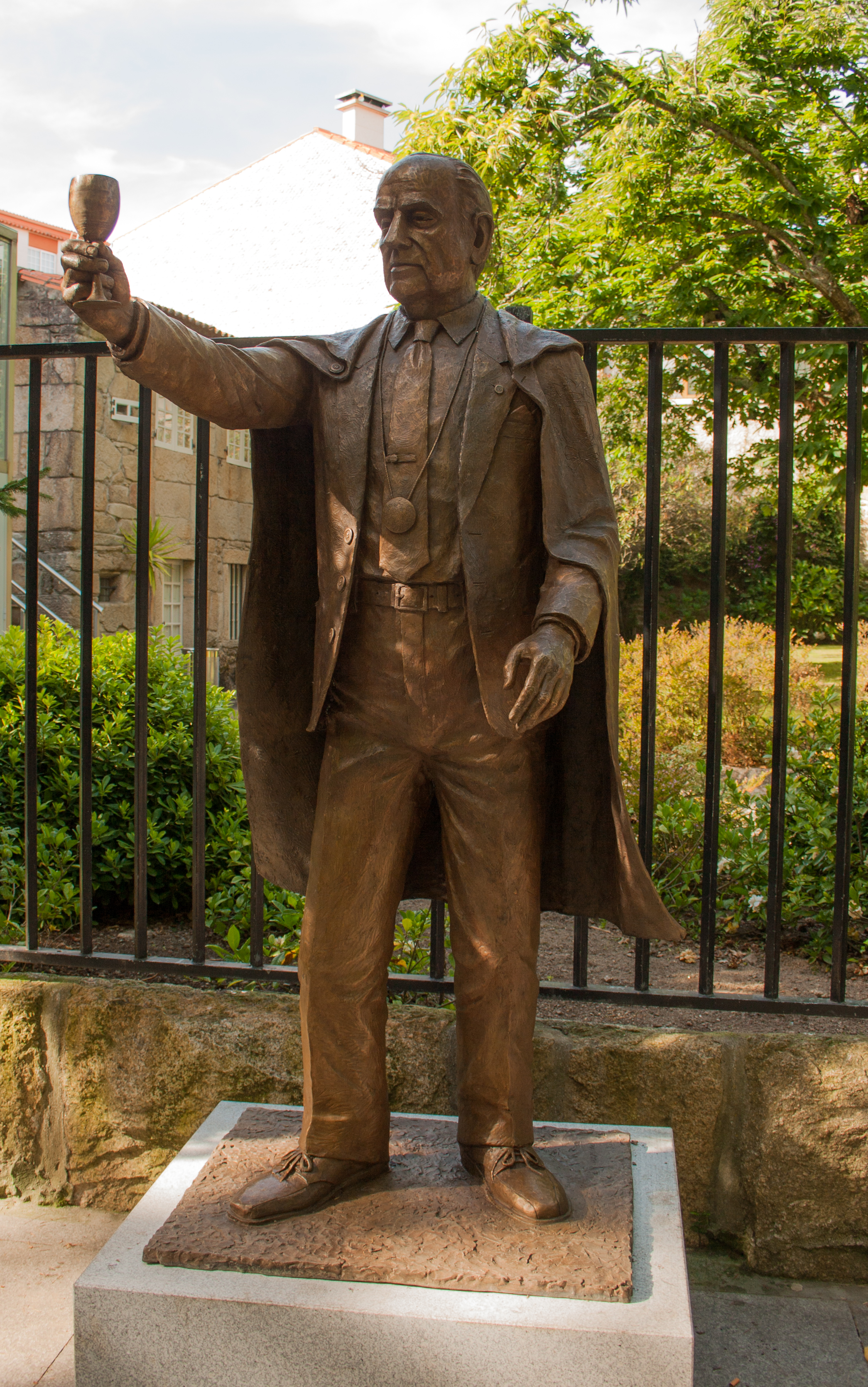 Sculpture of Category:Manuel Fraga Iribarne in Cambados.